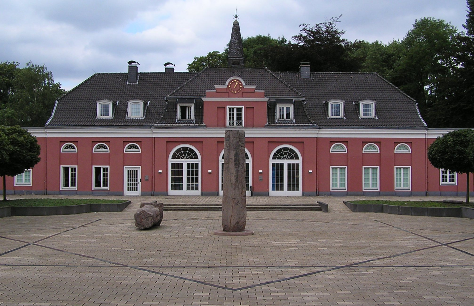 Side building "Kleines Schloss" ("small castle") of the castle "Schloss Oberhausen" from the inner courtyard, Oberhausen